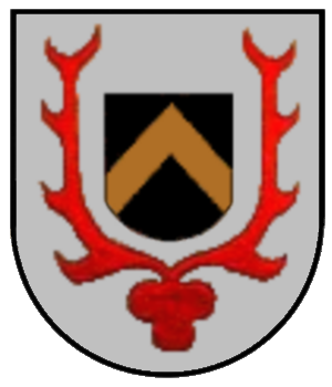 Coat of arms of Büchenbronn in Pforzheim Converted into PNG format and transparency added by User:Enslin.